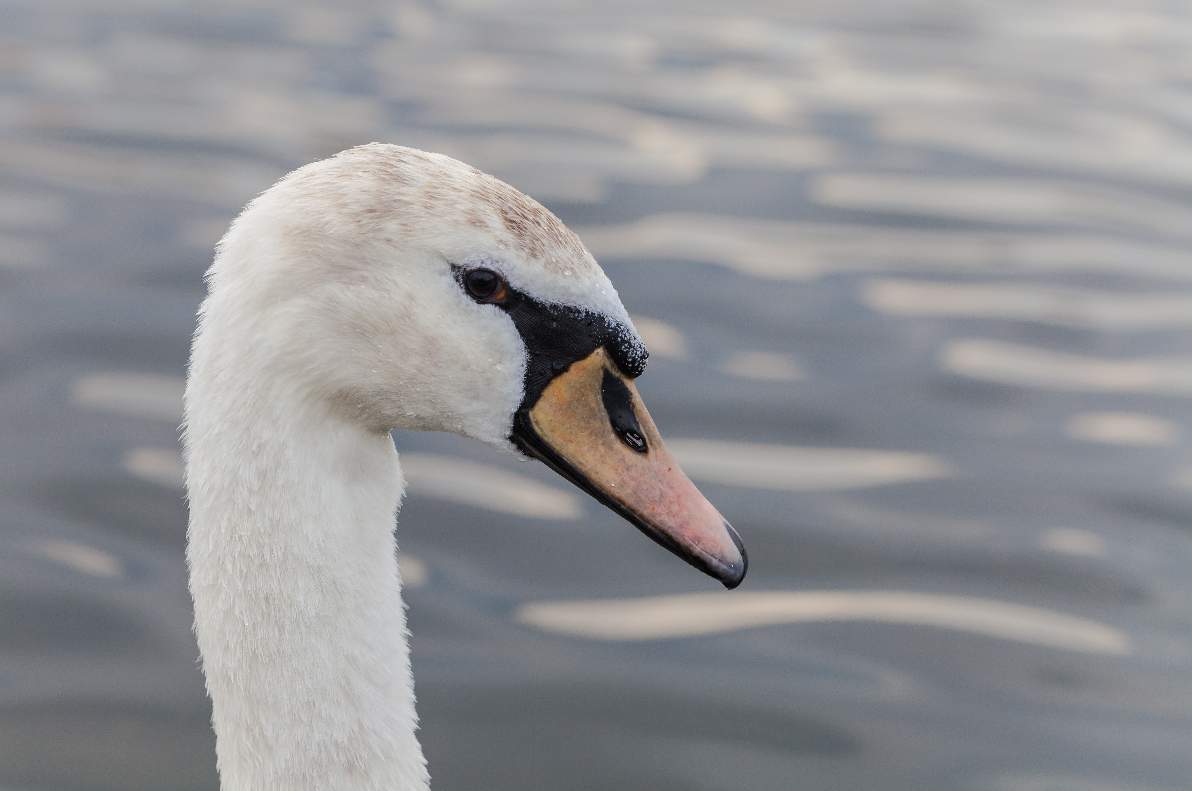 Swan (Cygnus olor) at the Nymphenburg Palace, Munich, Germany